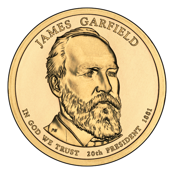 Presidential $1 Coin Program coin for James Garfield. Obverse.